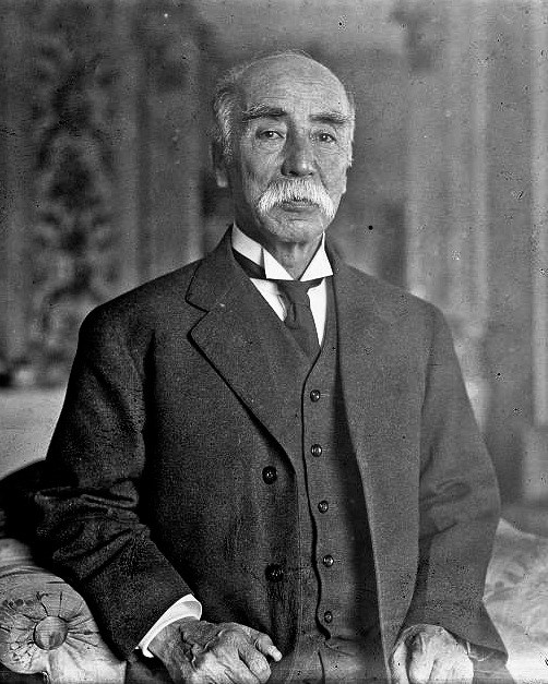 Dr. Soroku Ebara (1842-1922), Japanese educator, politician and head of the Tokyo Y.M.C.A. (Source: Flickr Commons project, 2009) (description from the image's summary of the Library of Congress)